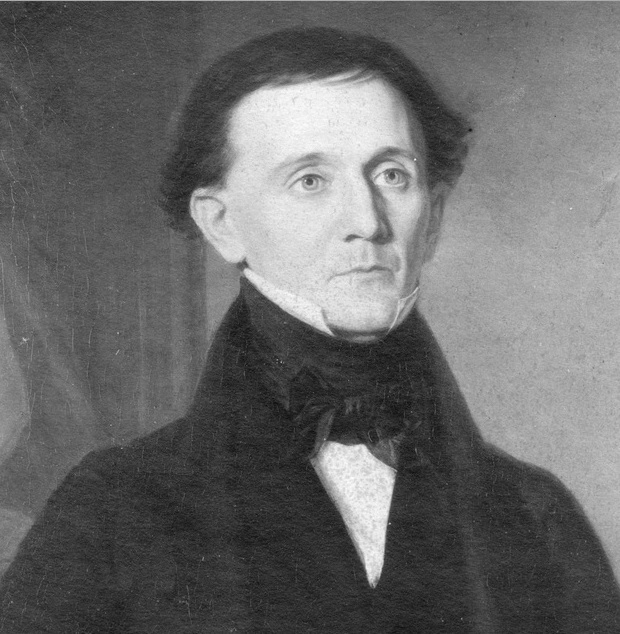 Nicholas Sickles, New York Congressman.